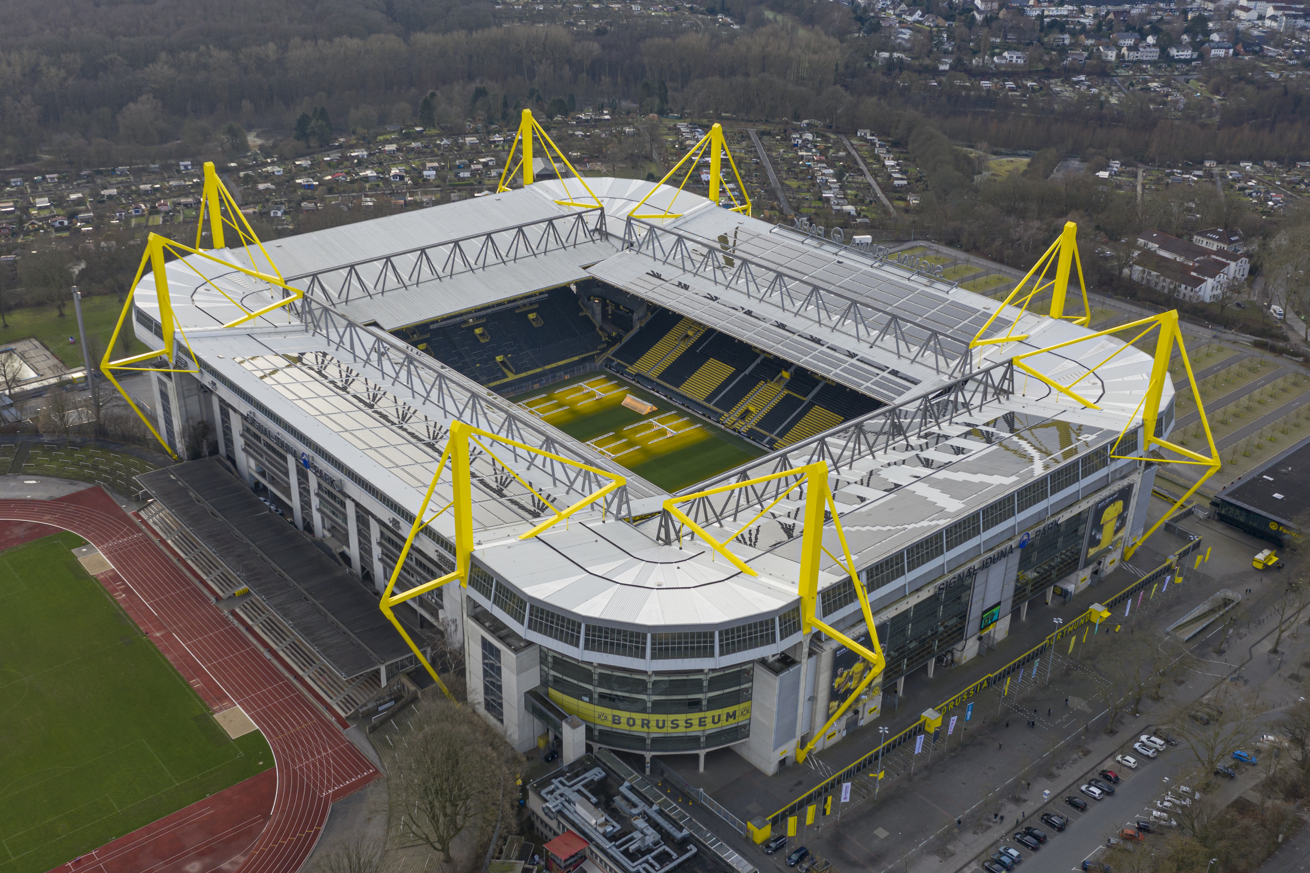 Westfalenstadion (or Signal-Iduna-Park) is a football stadium in Dortmund, North Rhine-Westphalia, Germany, which is the home of Borussia Dortmund.